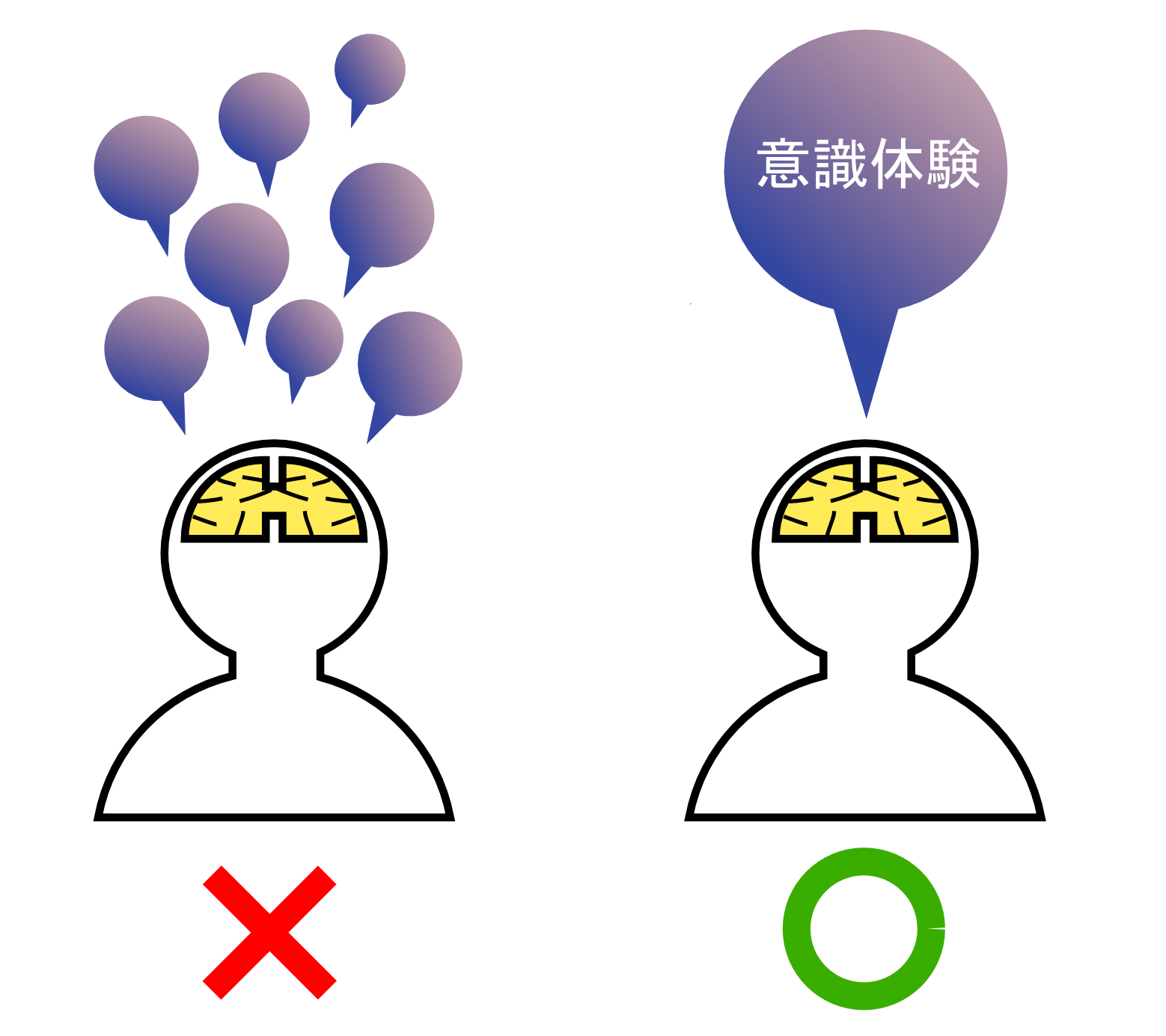 Diagram about boundary problem, is problem discussed in philosophy of mind related to unity of consciousness. See Gregg Rosenberg "A Place for Consciousness".